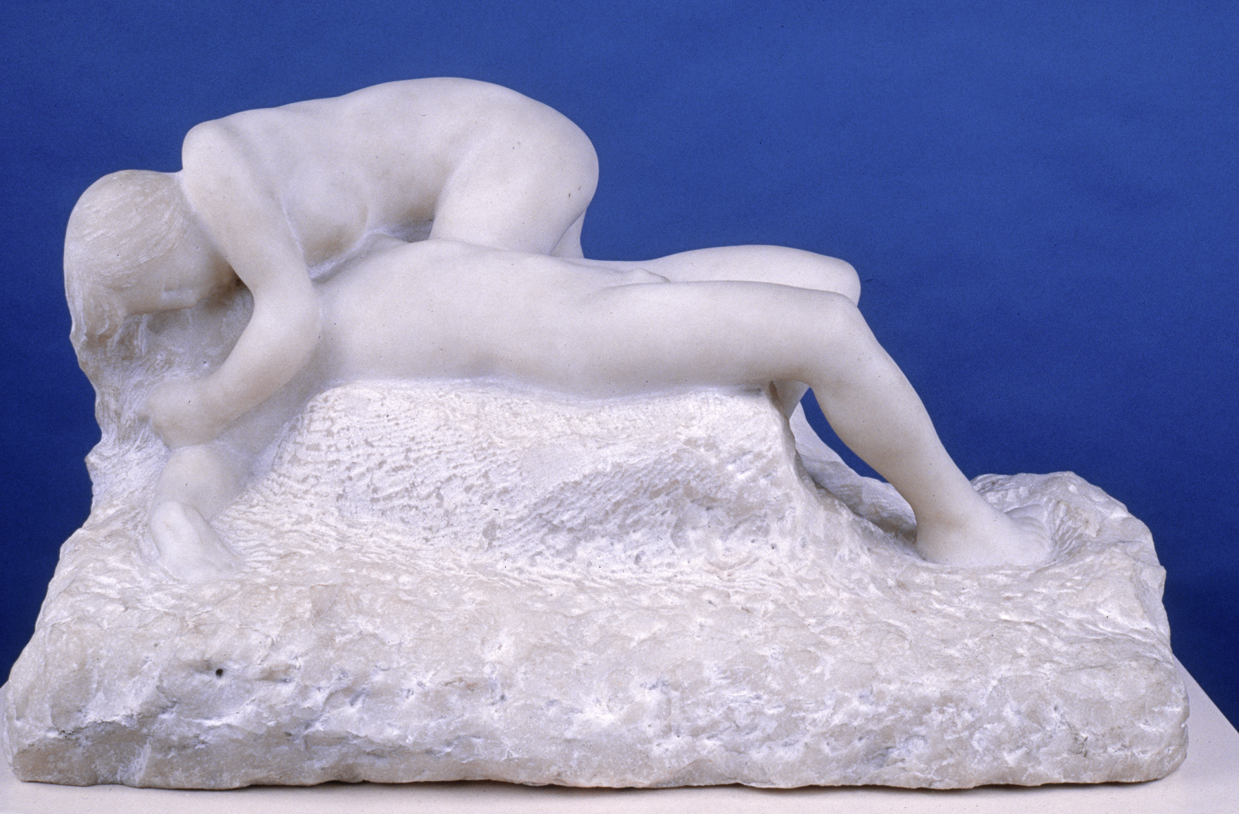 According to Greek mythology, the goddess Aphrodite fell passionately in love with the beautiful youth Adonis. When he was killed in a hunting accident, Aphrodite's grief was so overwhelming that the gods allowed Adonis to come back to earth for six months each year and then return to Hades. Rodin, wishing to make his work easily available, relied on studio assistants to create bronze or marble sculptures from his clay models. A plaster cast of this piece, dating from before 1888, was included in an exhibition held by Rodin in Paris in 1900.